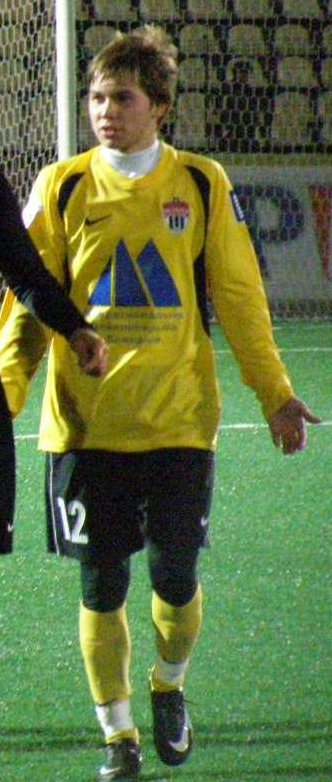 Vladislav Nikiforov in action for FC Khimki